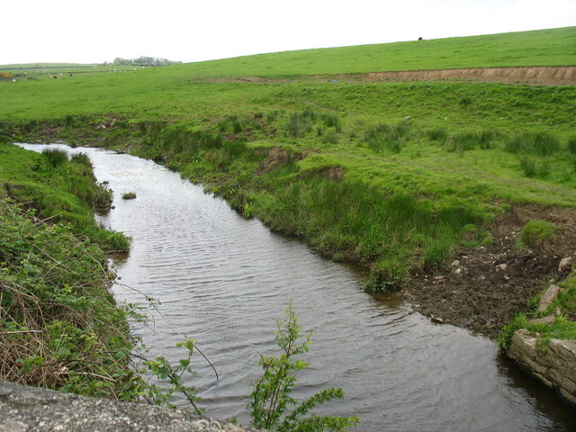 Afon Alaw below Pont y Crawiau